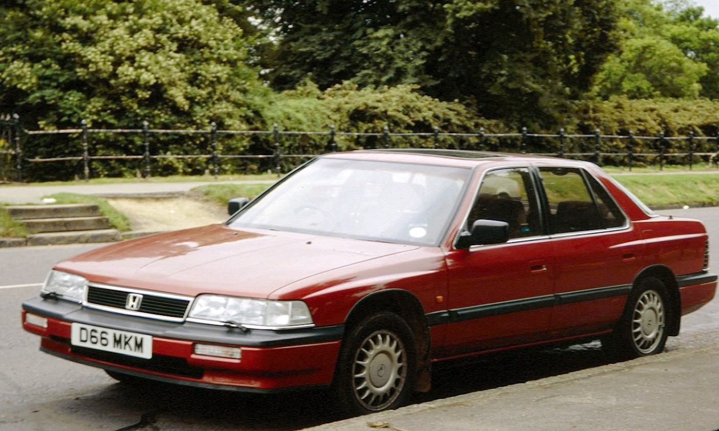 Honda Legend first generation in Cambridge, England registered 05 January 1987 2493cc "untaxed" since 1999